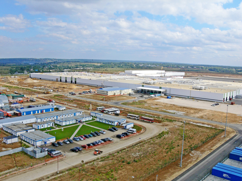 «PCMA RUS» L.T.D